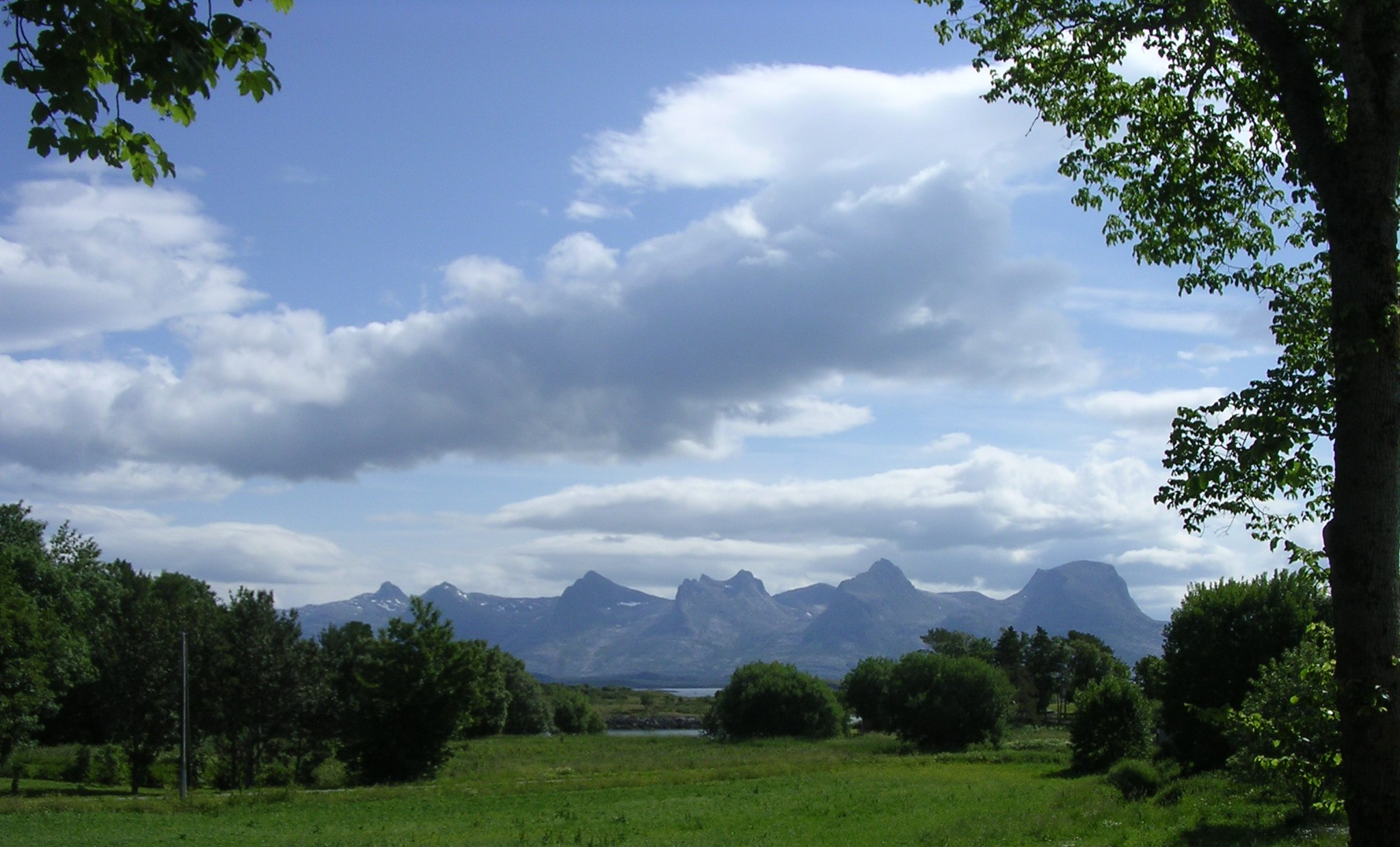 The mountains "Seven sisters" on Alsten, Nordland seen from the west